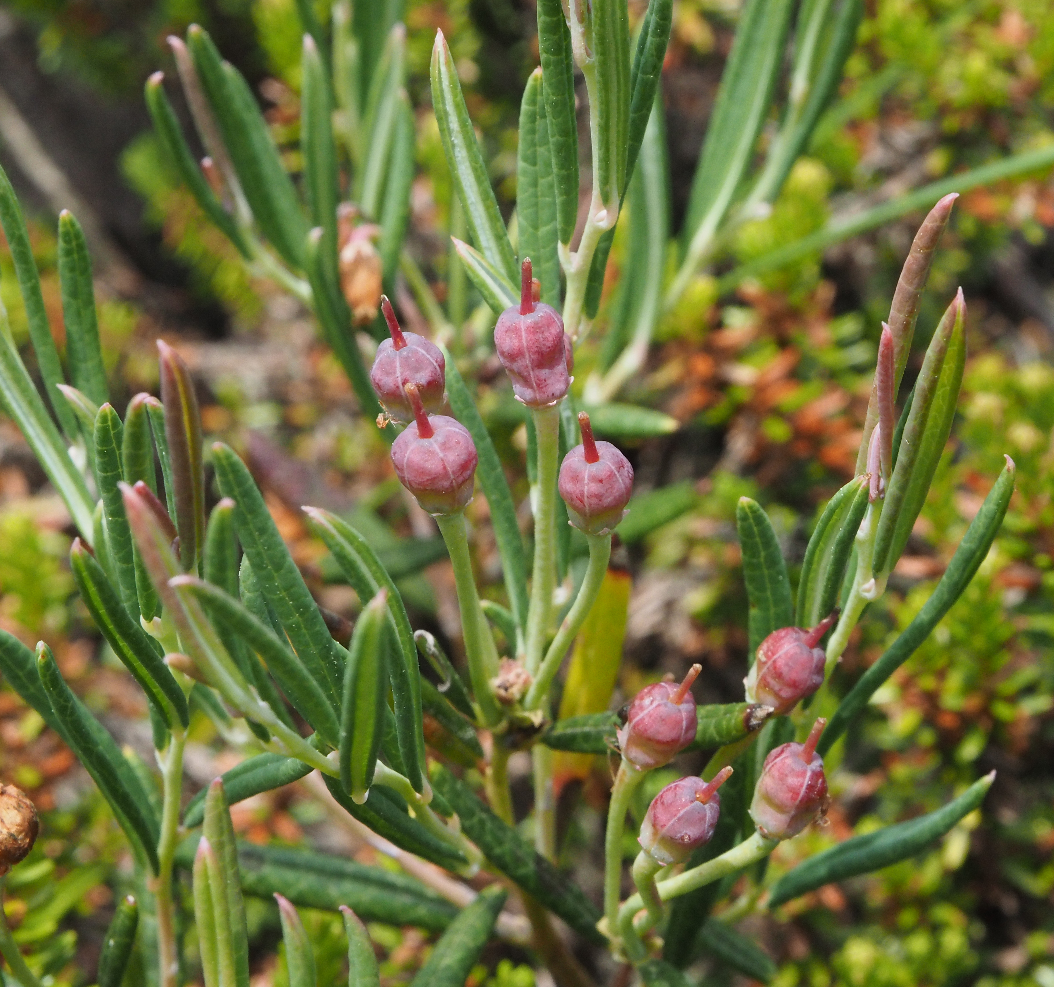 Andromeda polifolia, Ericaceae, Bog-rosemary